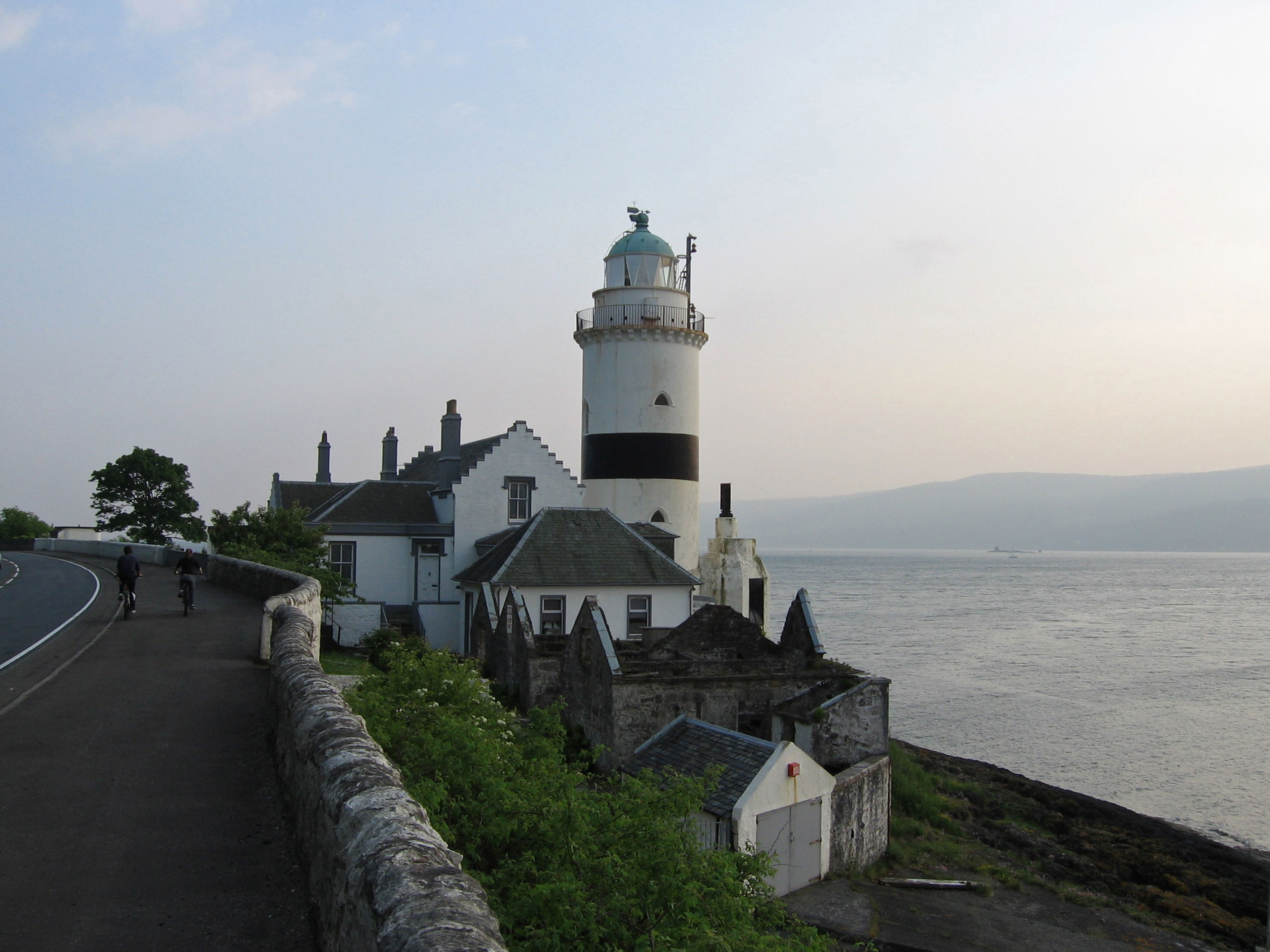 Cyclists passing the Cloch lighthouse on the Inverclyde Coastal Path.